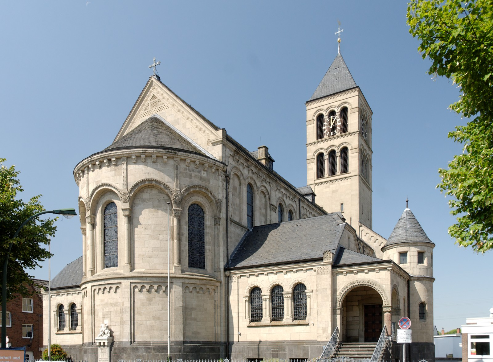 Saint Blasius Church in Düsseldorf-Hamm, Germany